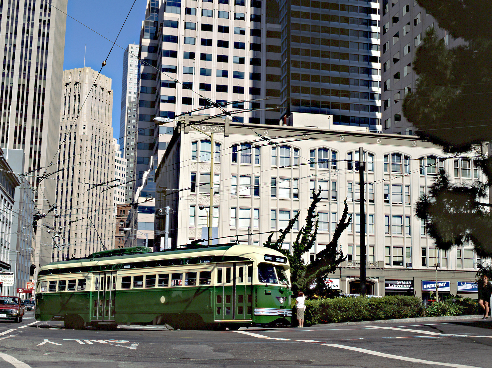 San Francisco (CA), USA, PCC-type streetcar 1058 turning into the Transbay Terminal from First Street in 1999, on the F-Market heritage streetcar line (which opened in 1995). Car 1058's current paint scheme is in tribute to the Chicago Transit Authority, which was a large operator of PCC streetcars, but this car actually spent its entire original service career in Philadelphia, and was built in 1948 for the Philadelphia Transportation Company. It was acquired by San Francisco Muni in 1992 and refurbished for eventual use on the F-Market heritage streetcar line.